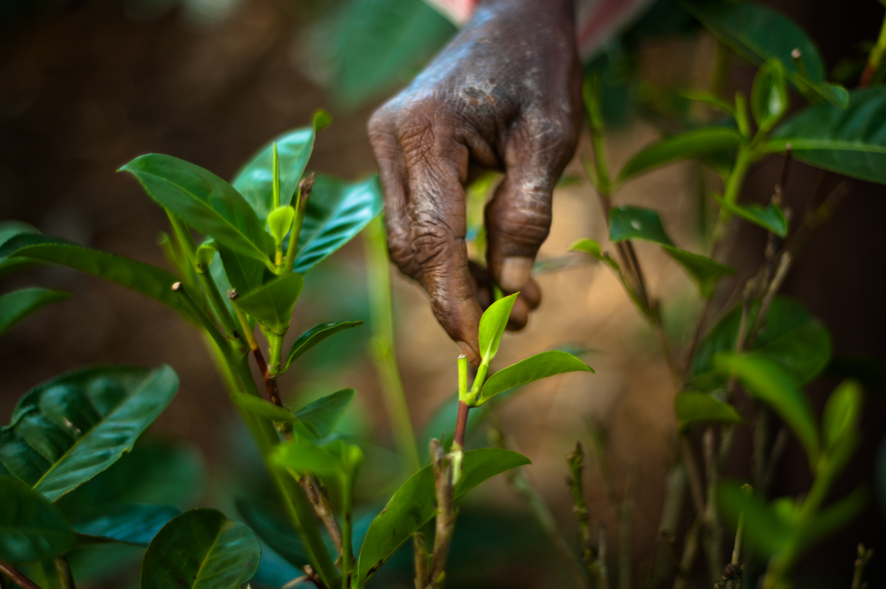 Tea crops gathering process. Bogawantalawa Valley. Sri Lanka.